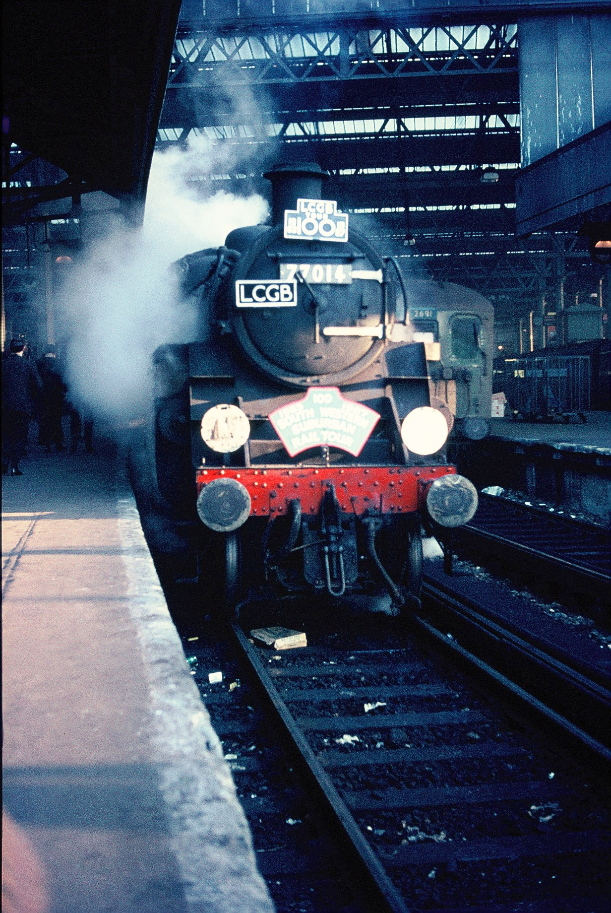 BR Standard Class 3 No. 77014 with the LCGB's "South Western Suburban Rail Tour" at London Waterloo station.